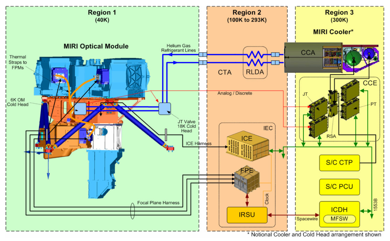 JWST MIRI block diag